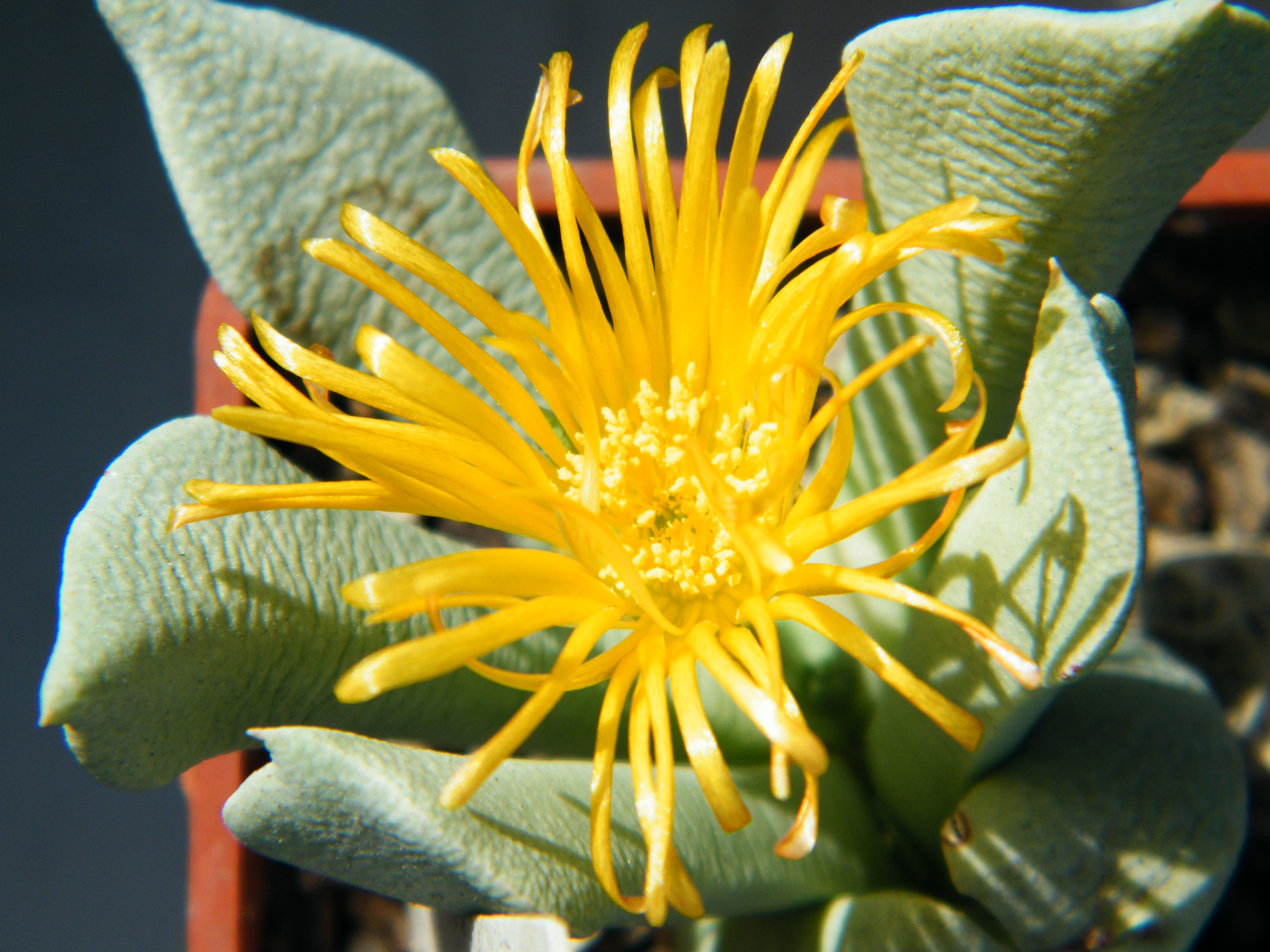 Schwantesia borcherdsii from own collection